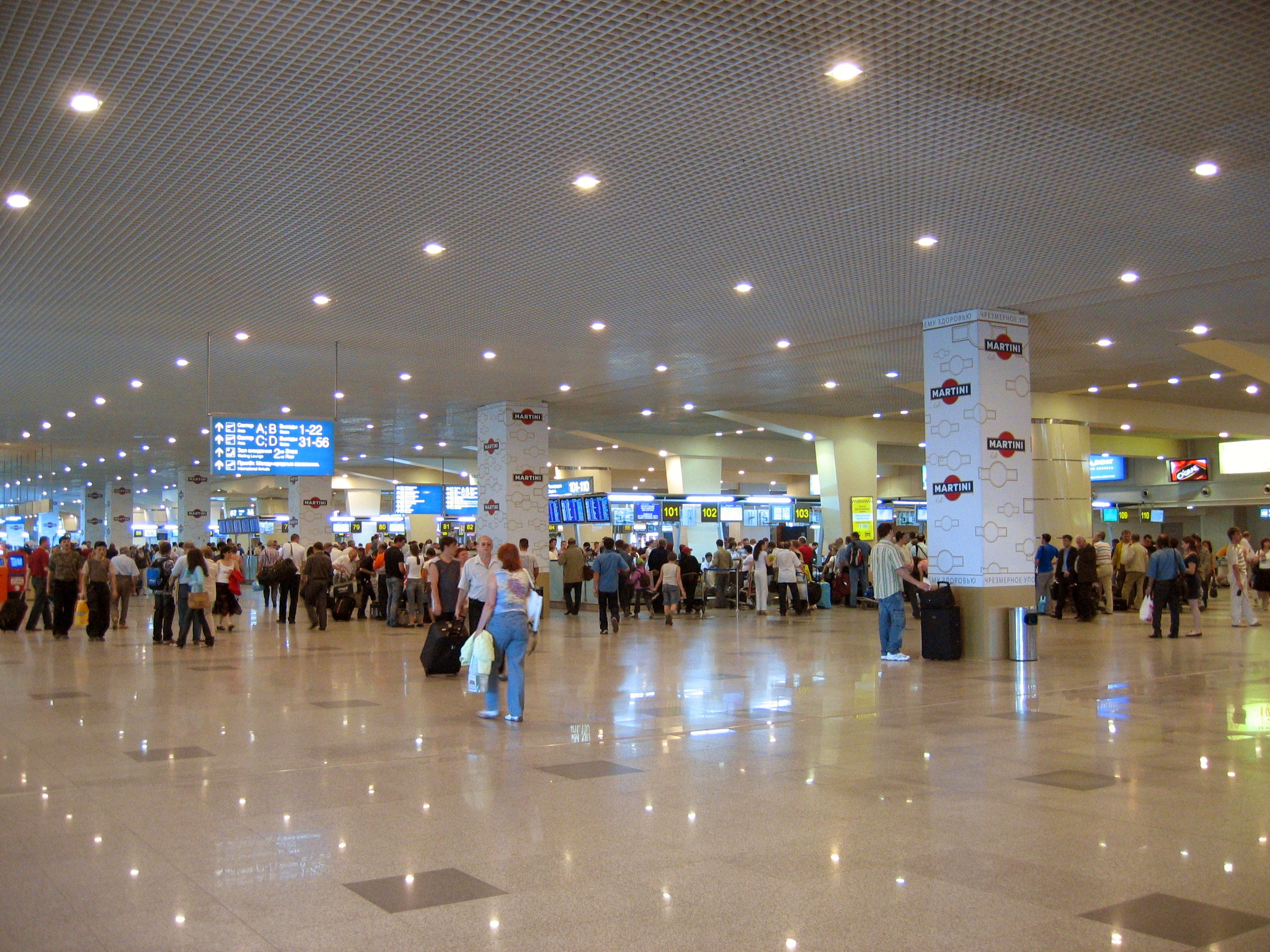 Domodedovo Airport, lobby and check-in desks